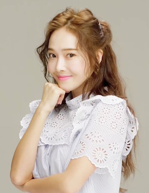 Jessica on the CLEO Thailand magazine (cropped)